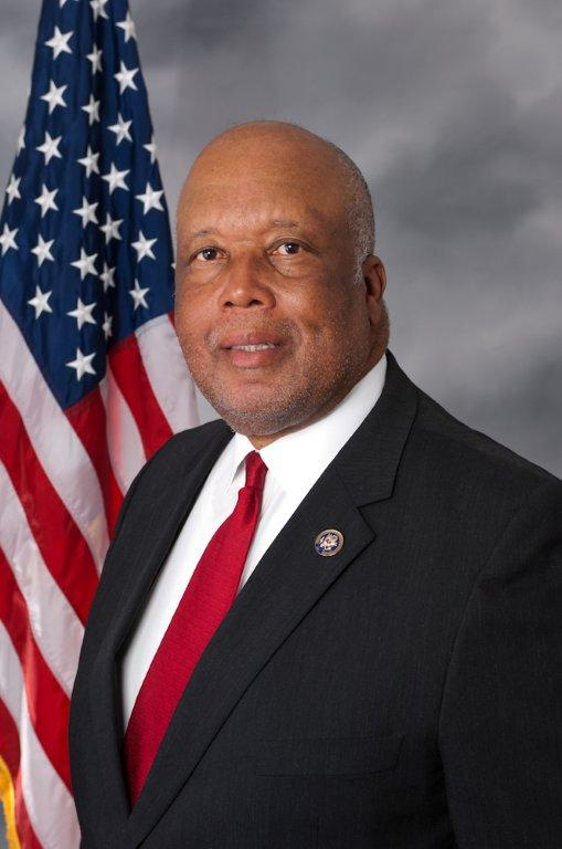 Representative Bennie Thompson